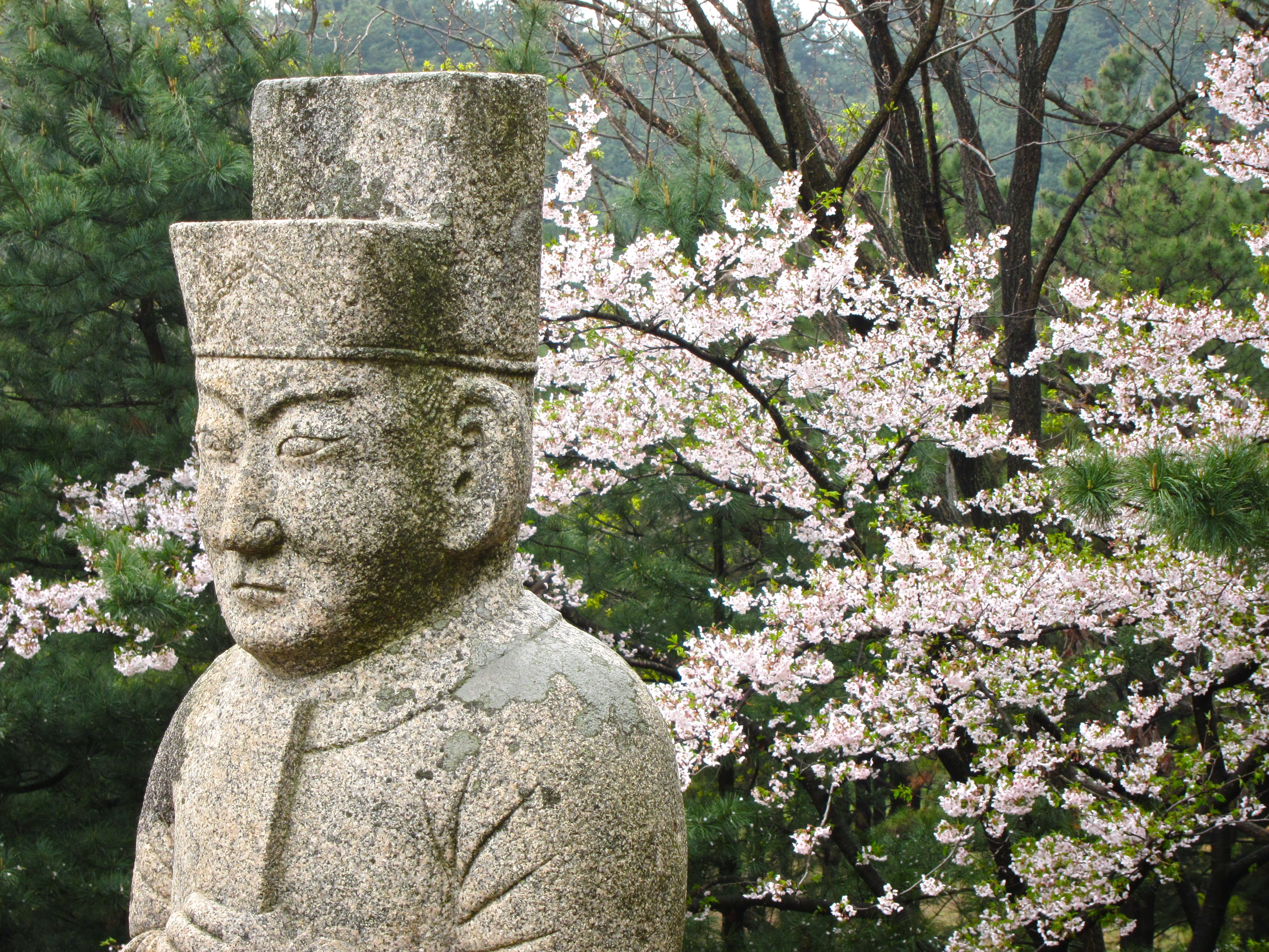 Stone statue at the 14th century Tomb of King Kongmin (Hyonjongrung Royal Tomb) - Goryeo Dynasty.. It is one of the Royal Tombs of the Koryo (Goryeo) Dynasty. Located near Kaesong, in Gaeseong Province, DPRK-North Korea.